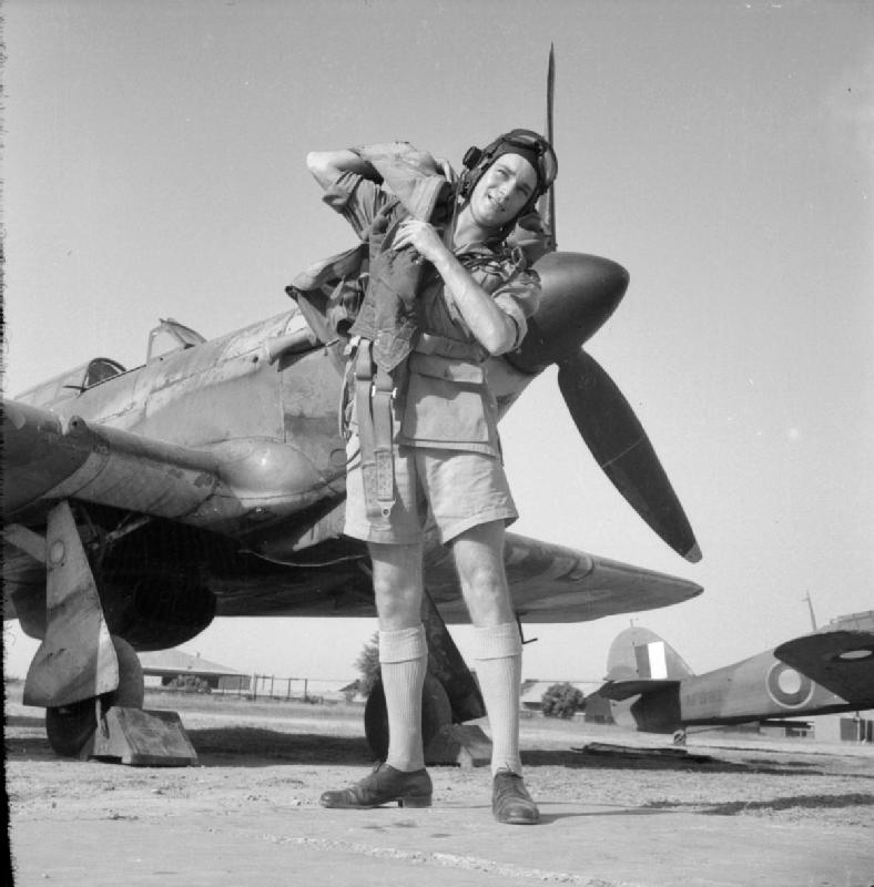 Royal Air Force Operations in the Far East, 1941-1945. A trainee pilot shoulders his parachute harness in front of Hawker Hurricane Mark Is at No. 151 (Fighter) Operational Training Unit, Risalpur, India.